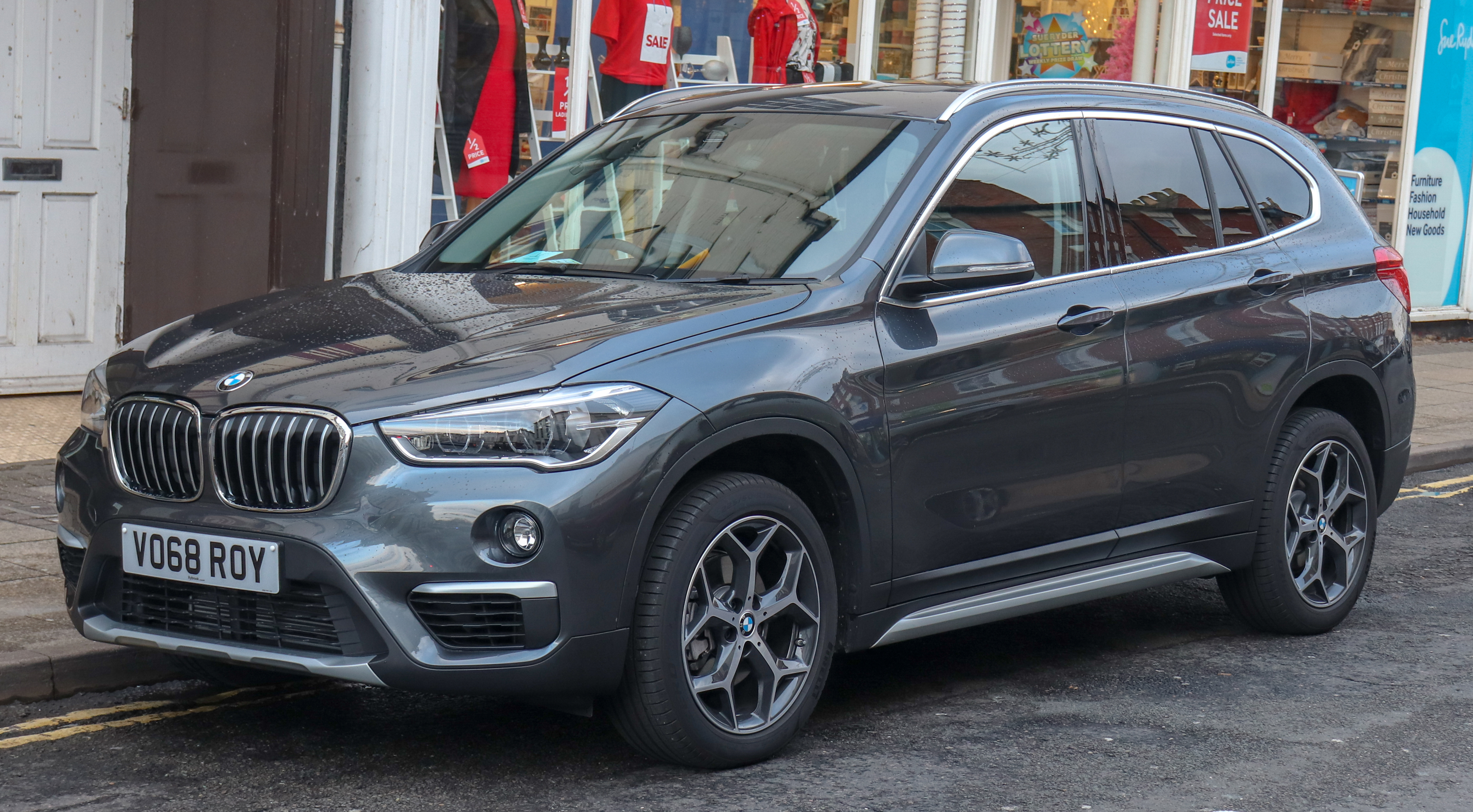 2018 BMW X1 sDrive18i xLine 1.5 Front Taken in Leamington Spa